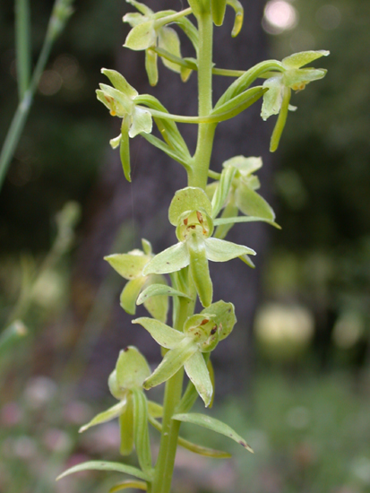 Platanthera holmboei Lindb.f. (מירונית סרגלית), Ya'ar Odem, Golan Heights, April 30, 2006.